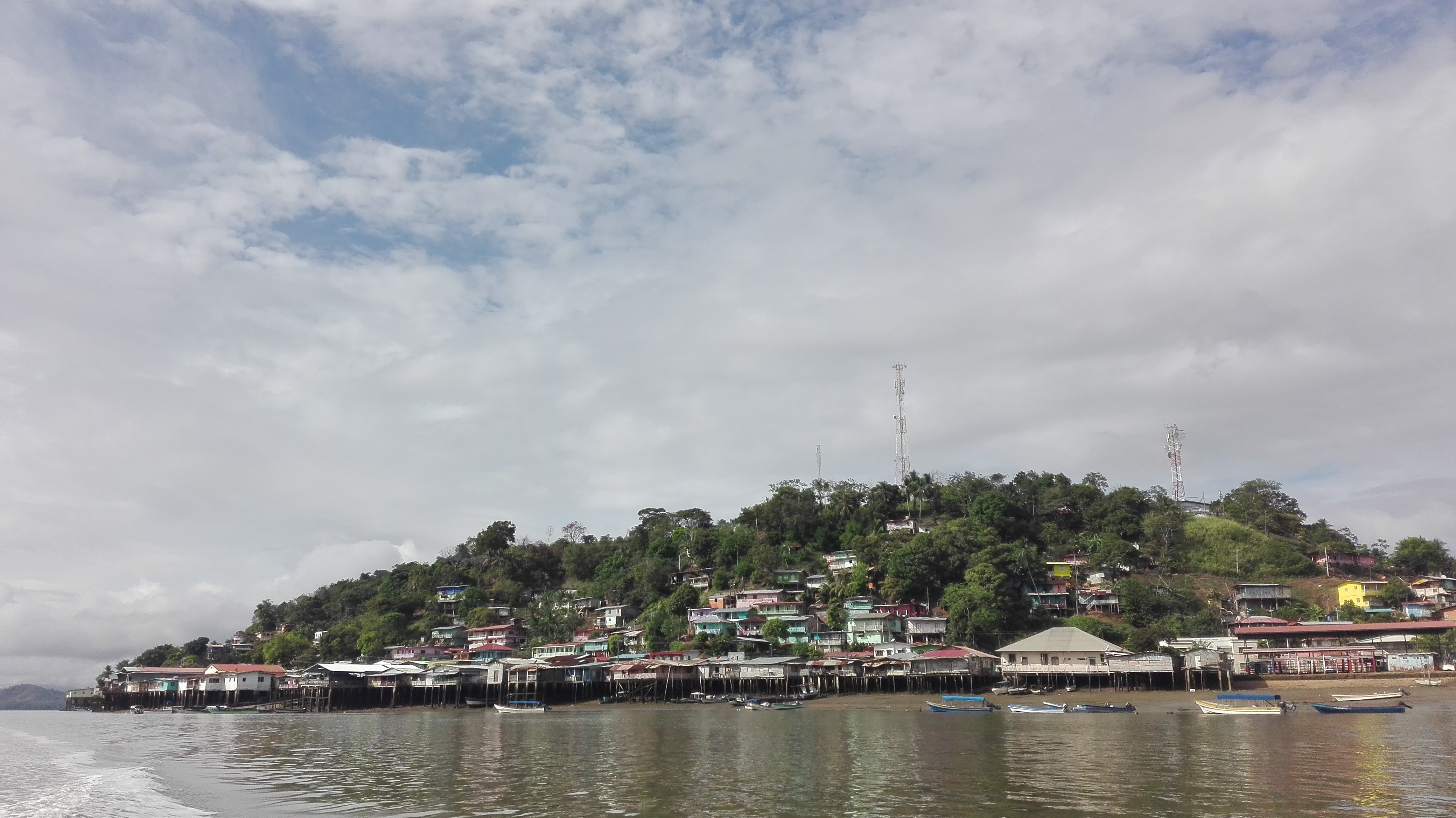 La Palma, Darien Province, Republic of Panama